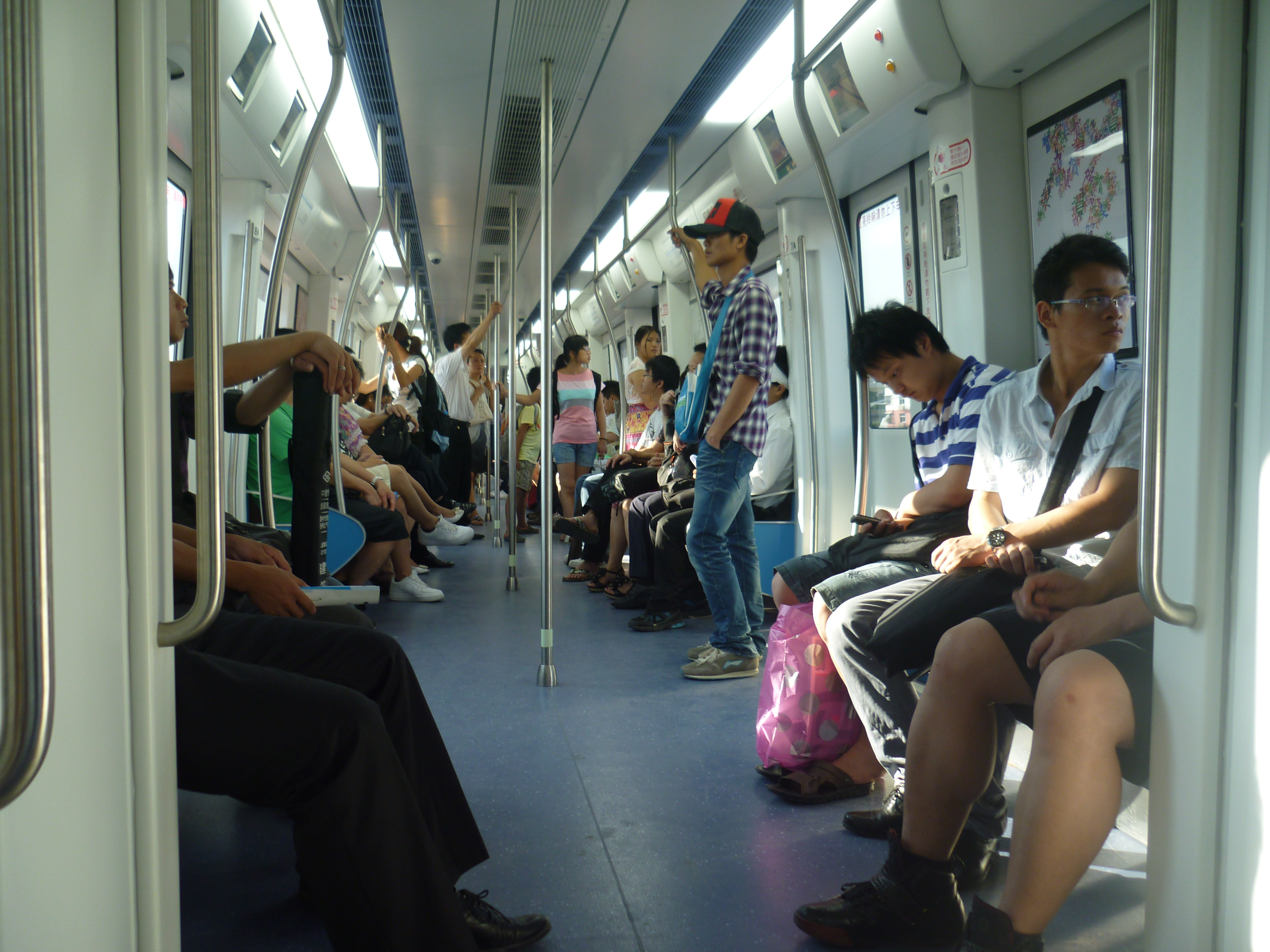 Inside the train of Long Gang Line.